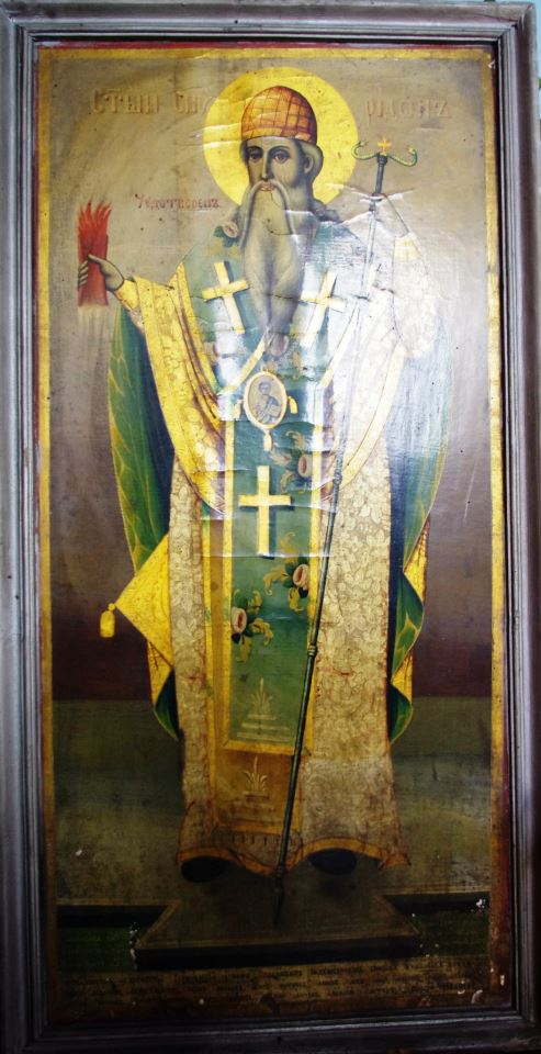 Saint Spyridon Icon from Saint Theodore Tyron Church in Vidin